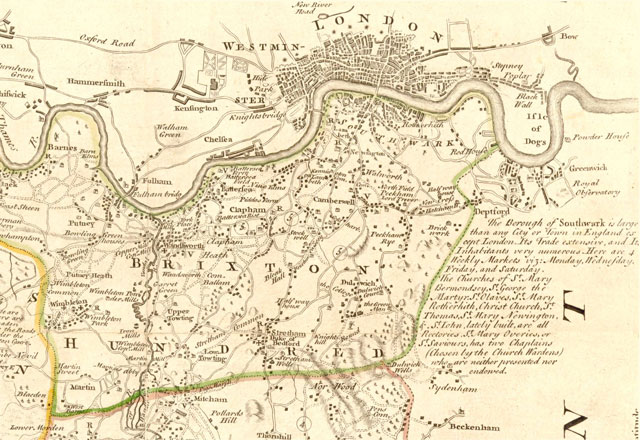 Engraving of 'An Accurate Map of Surrey; divided into its Hundreds', by Eman Bowen, c.1760